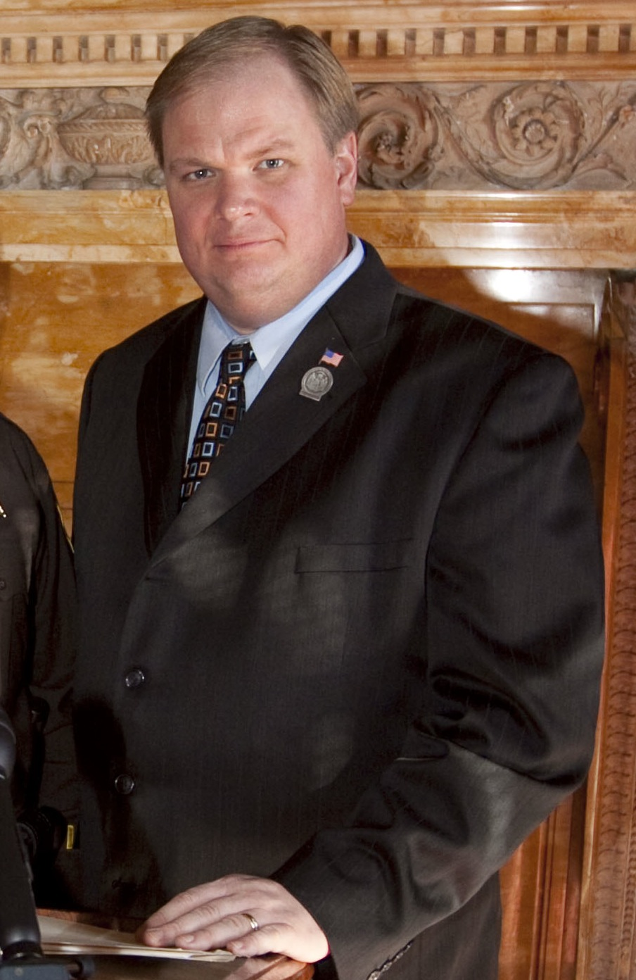 Wisconsin State Assemblyman Andy Jorgensen.